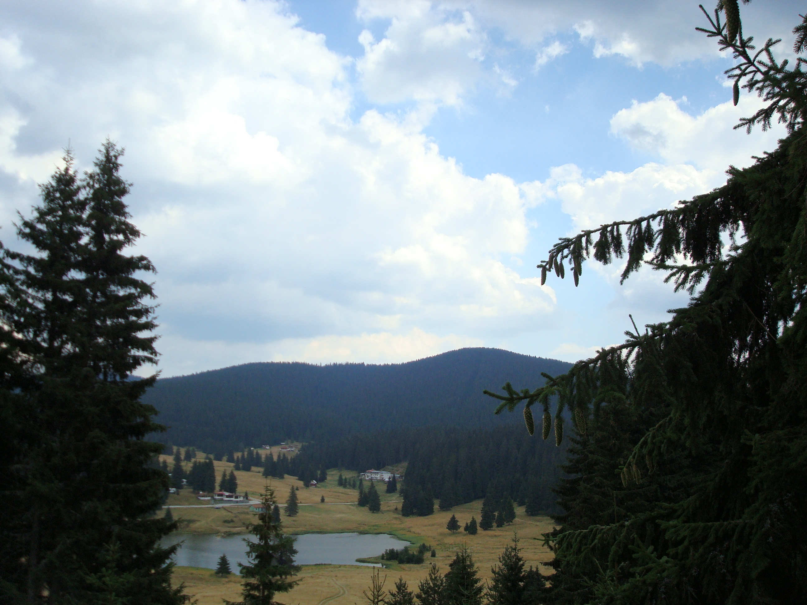 View to Haydushki Polyani, Rhodopes Mountains, Bulgaria